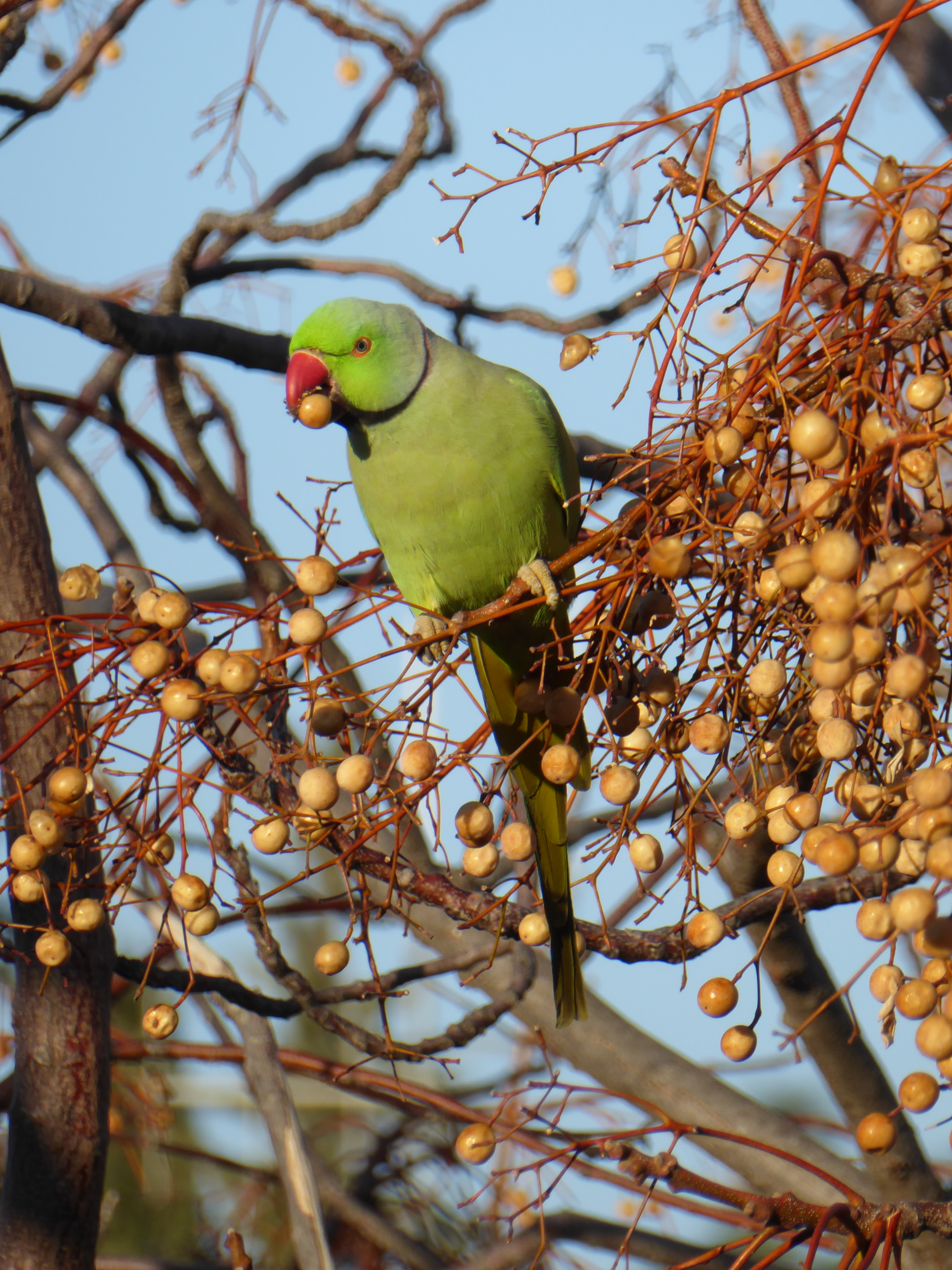 Animals of Israel